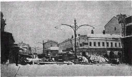 Malaya Dmitrovka Street 1905